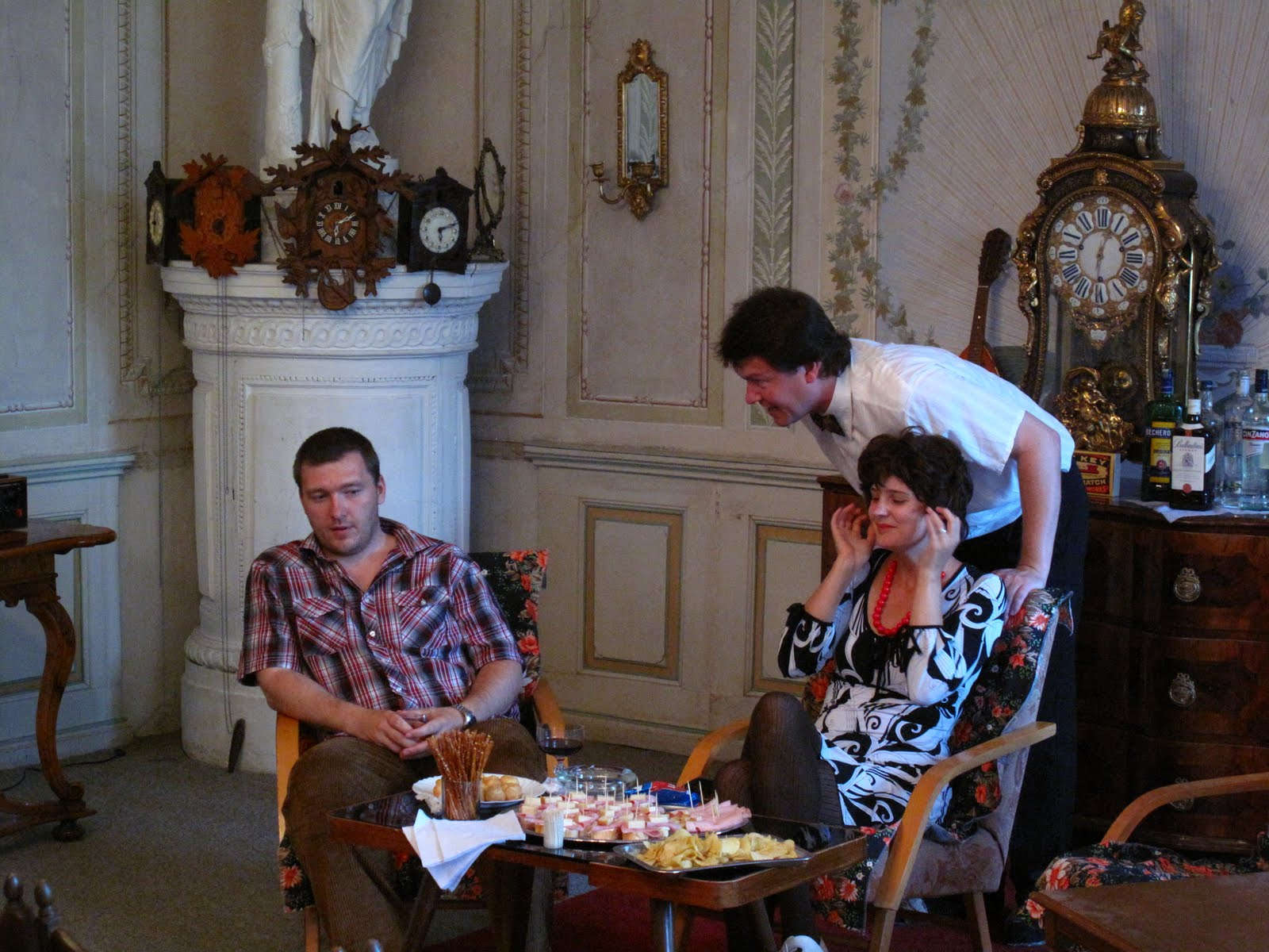 Performance of Unveiling (Vernisáž) by Divadlo Navenek in Krásný Dvůr